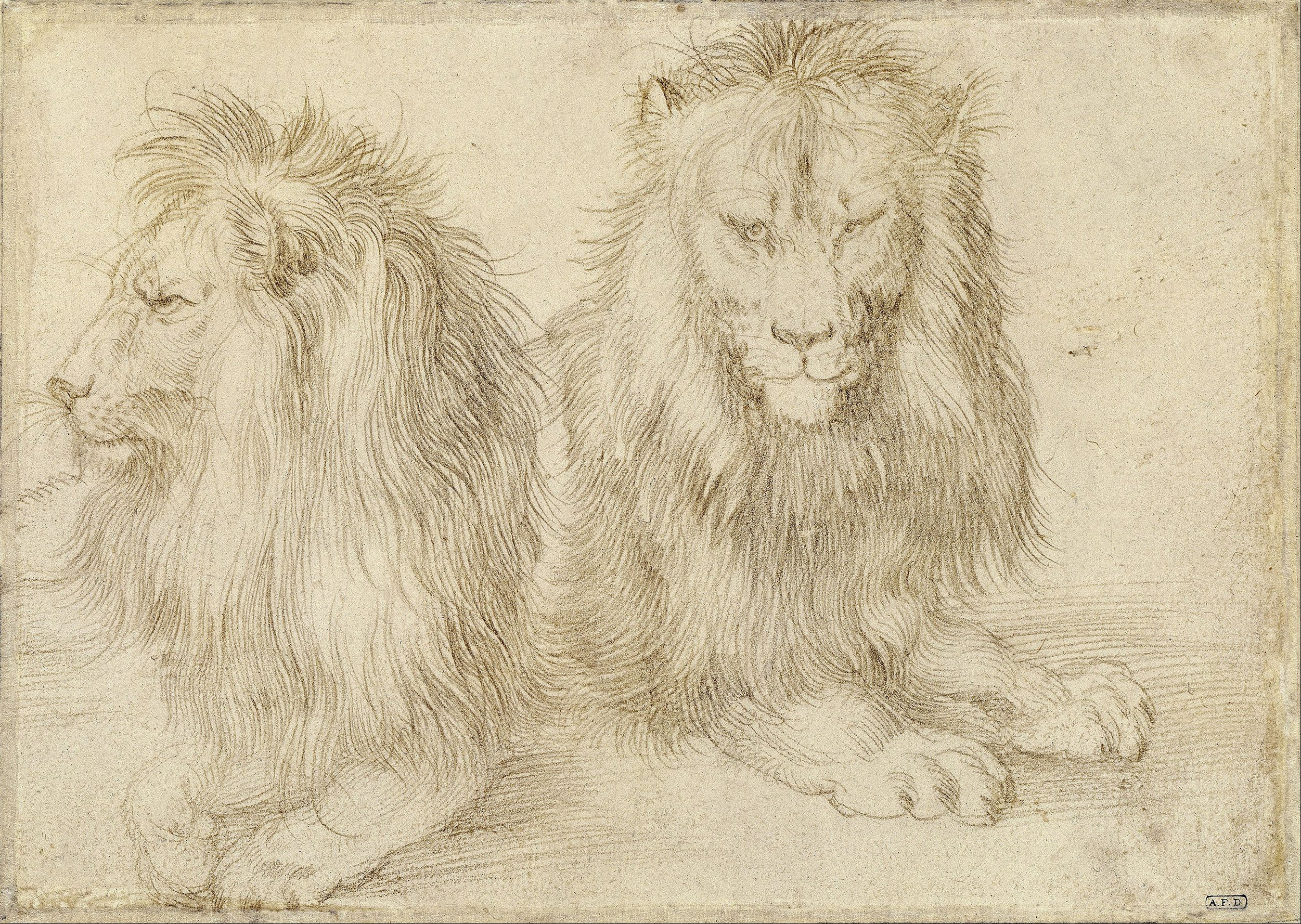 Holds the stamp of the Ambroise Firmin Didot collection.